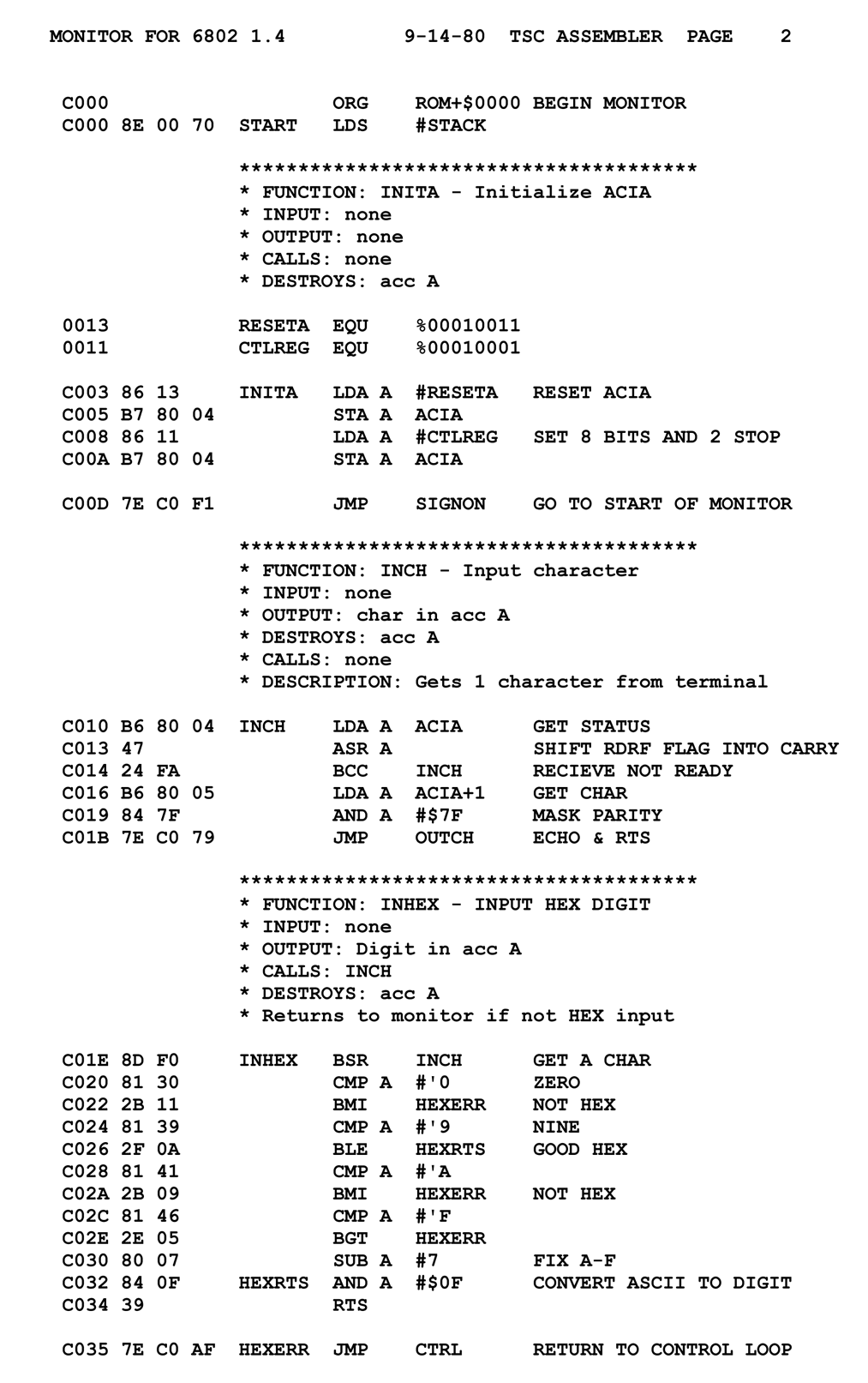 An assembly language listing for a Motorola 6800 8-bit microprocessor. This is a page from a "Monitor" program that communicates to a serial terminal connected to a MC6850 Asynchronous Communications Interface Adapter (ACIA). The routines here initialize the ACIA (INITA), read an ASCII character (INCH) and read a hexadecimal digit (INHEX). The first line of the INCH routine is located at hexadecimal memory address C010 and has the label INCH in the first text column. The instruction "LDA A ACIA" is a load accumulator A (opcode B6) from location 8004. (The symbol ACIA is defined as 8004 on a previous page.) This program was used in a single board Motorola MC6802 system that was designed and built as a university project in 1980 by Michael Holley.